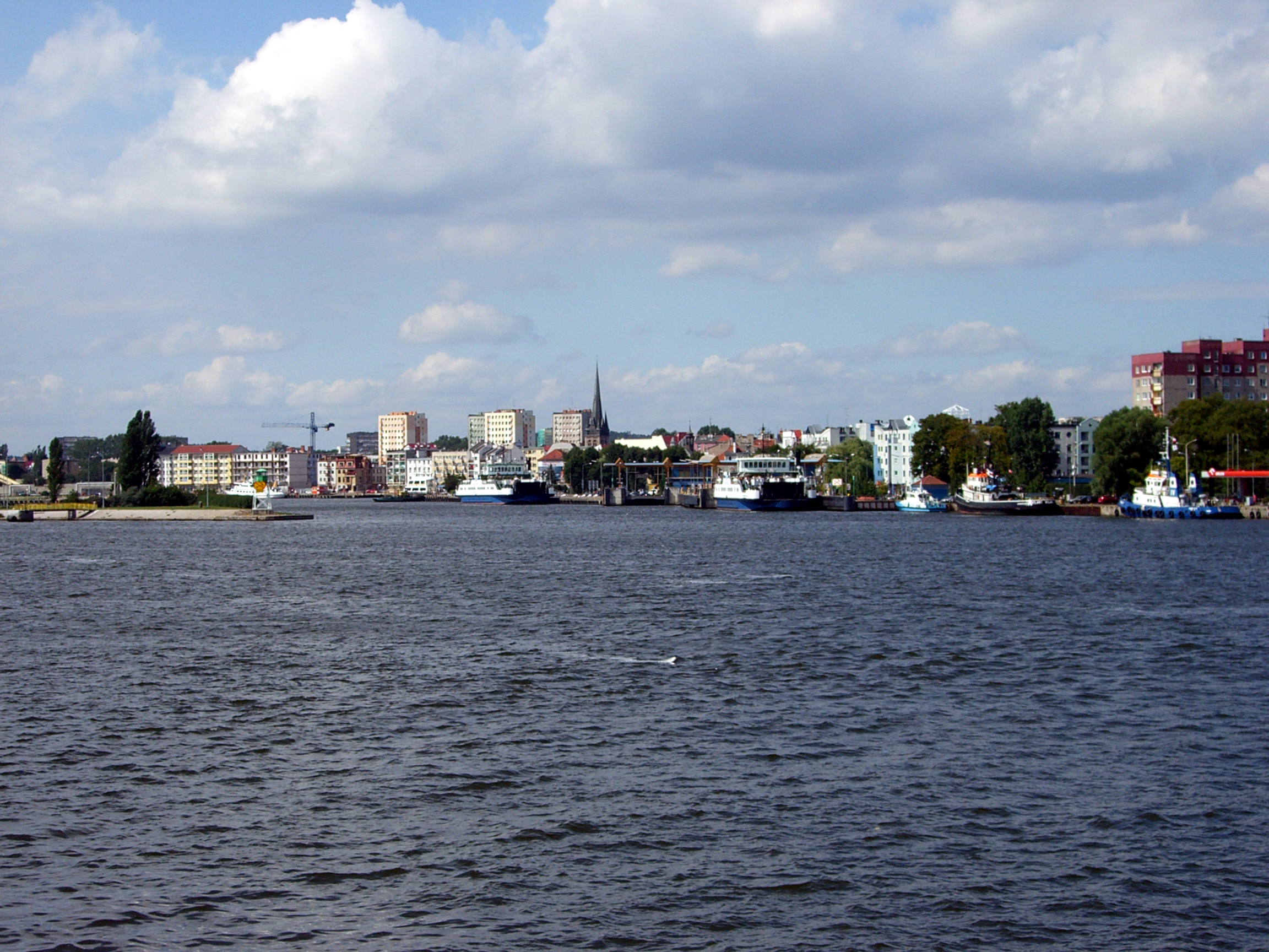 Świnoujście/Poland